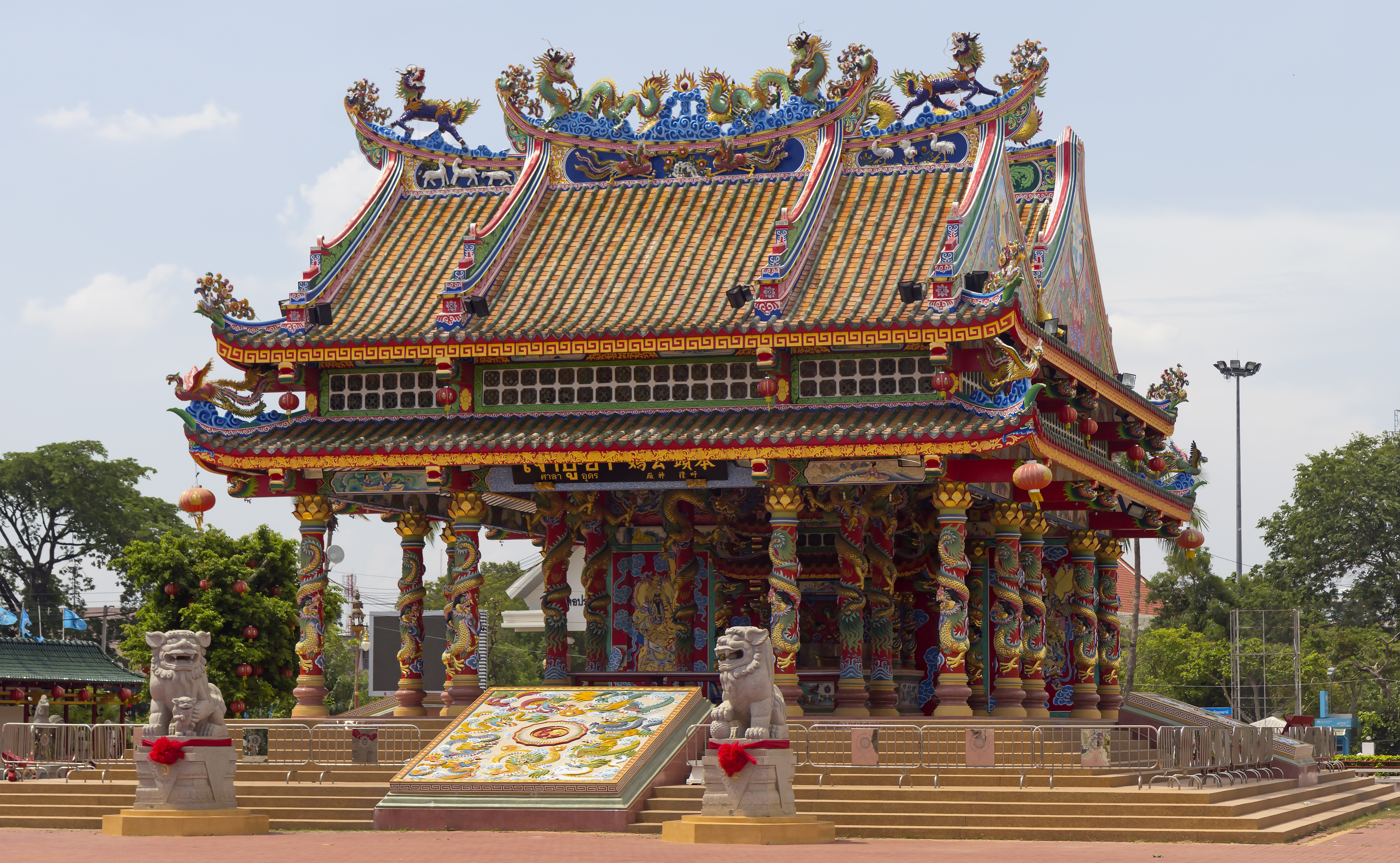 Chinese Shrine in Udon Thani